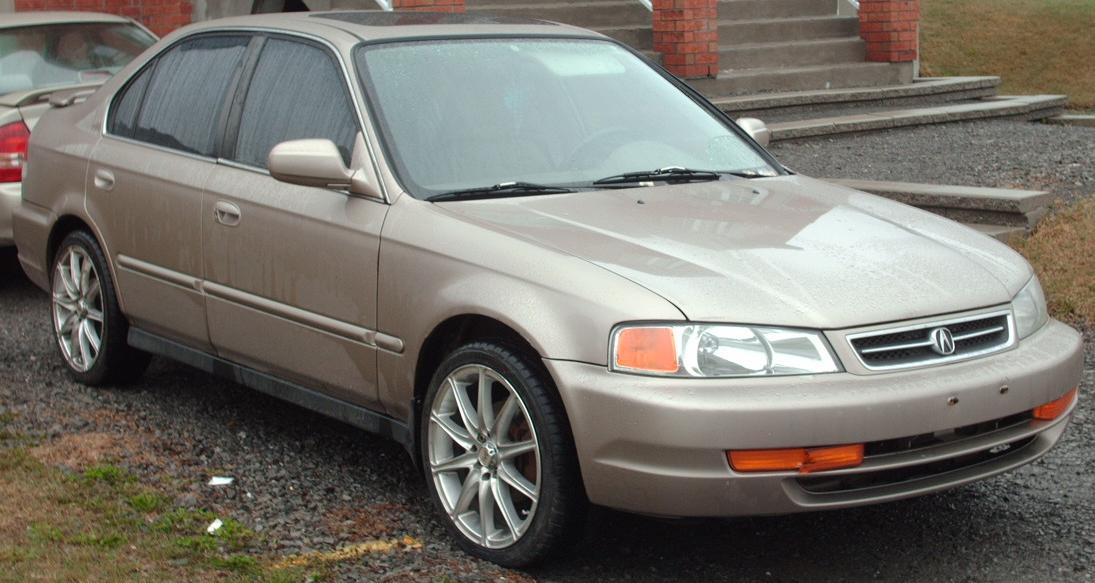 1999-2000 Acura 1.6EL photographed in Montreal, Quebec, Canada.